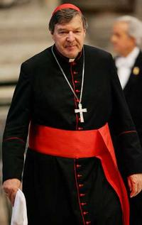 A photo of Cardinal George Pell I took during his time in Rome.